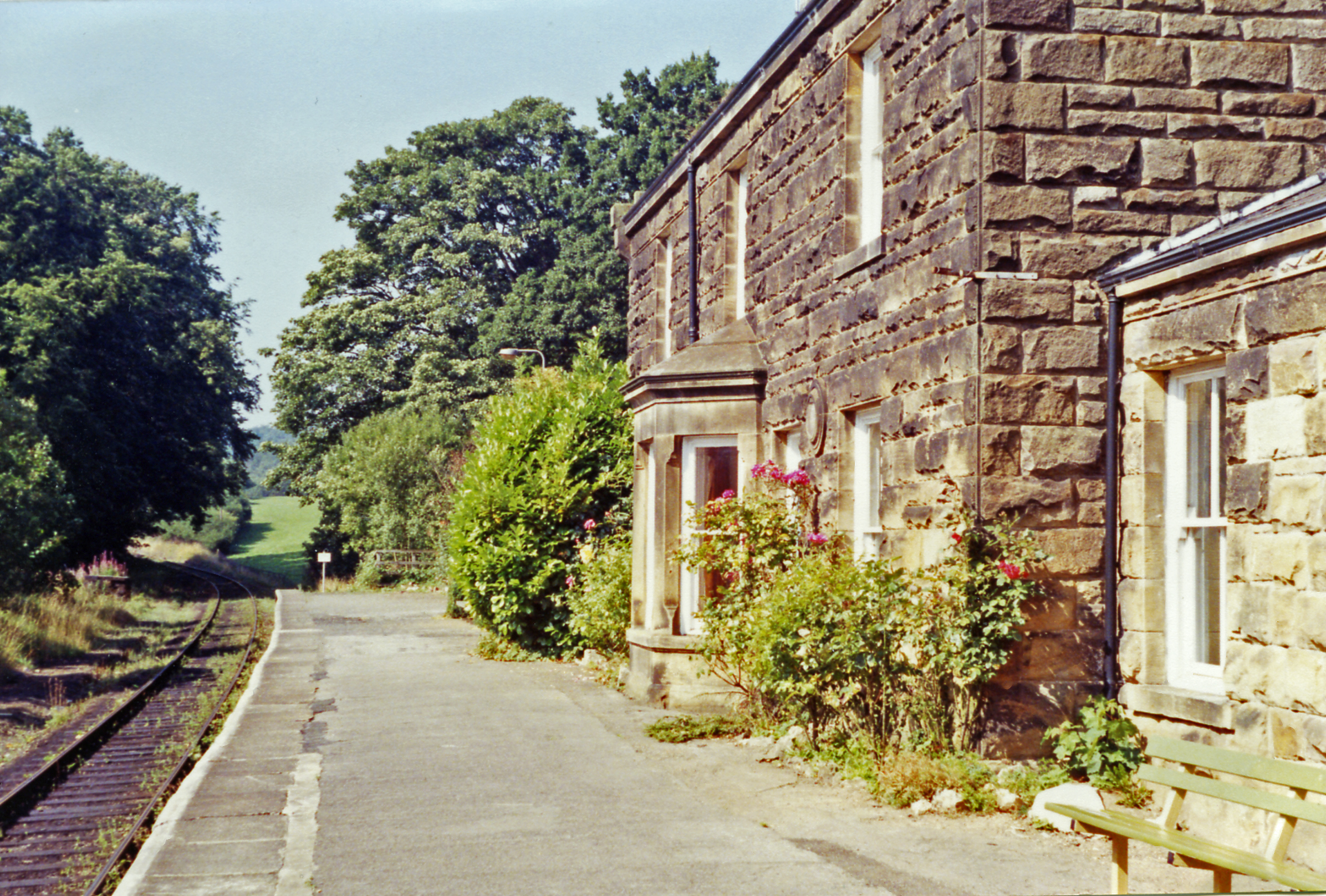 Egton station, 1991. View westward, towards Battersby: ex-NER (Middlesbrough) - Battersby - Grosmont - Whitby branch, which is a rare example of a country branch that survived the 'Beeching Axe'.